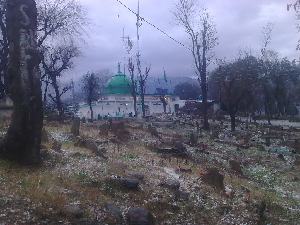 The grave of Pir Baba of Buner